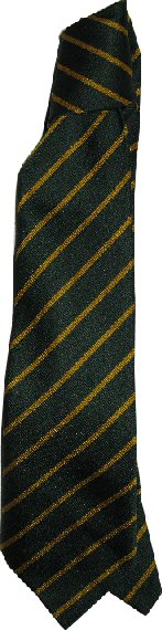 Vale of Catmose school tie in the school colours, green and yellow.